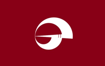 Flag of Abu Yamaguchi